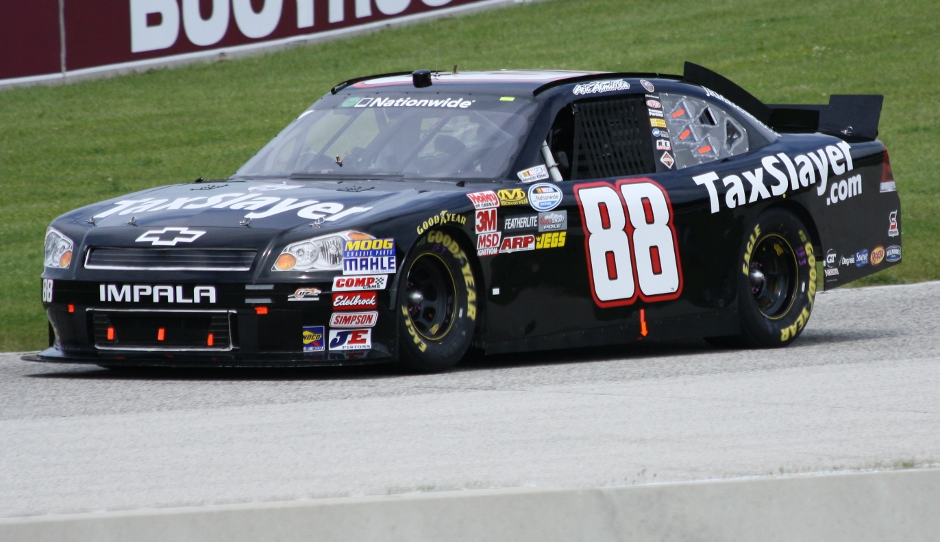 NASCAR driver Aric Almirola racing his stock car at Road America at the 2011 Bucyros 200 Nationwide Series race.